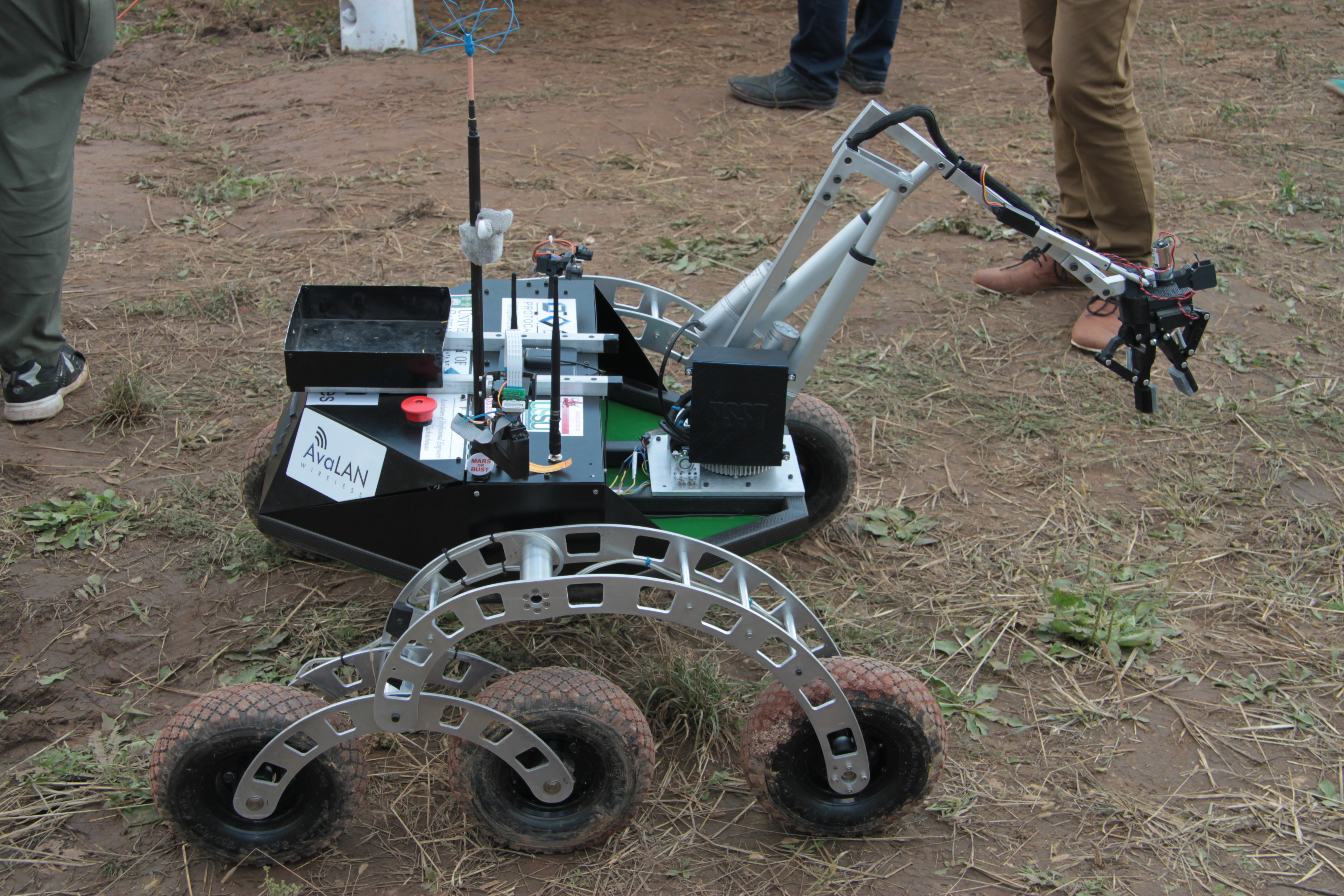 European Rover Challenge 2015, 5-6 September, Podzamcze near Chęciny near Kielce, Poland. First day of the competition, the winning rover built and run by the University of Saskatchewan Space Design Team (USST). After a competition task run.